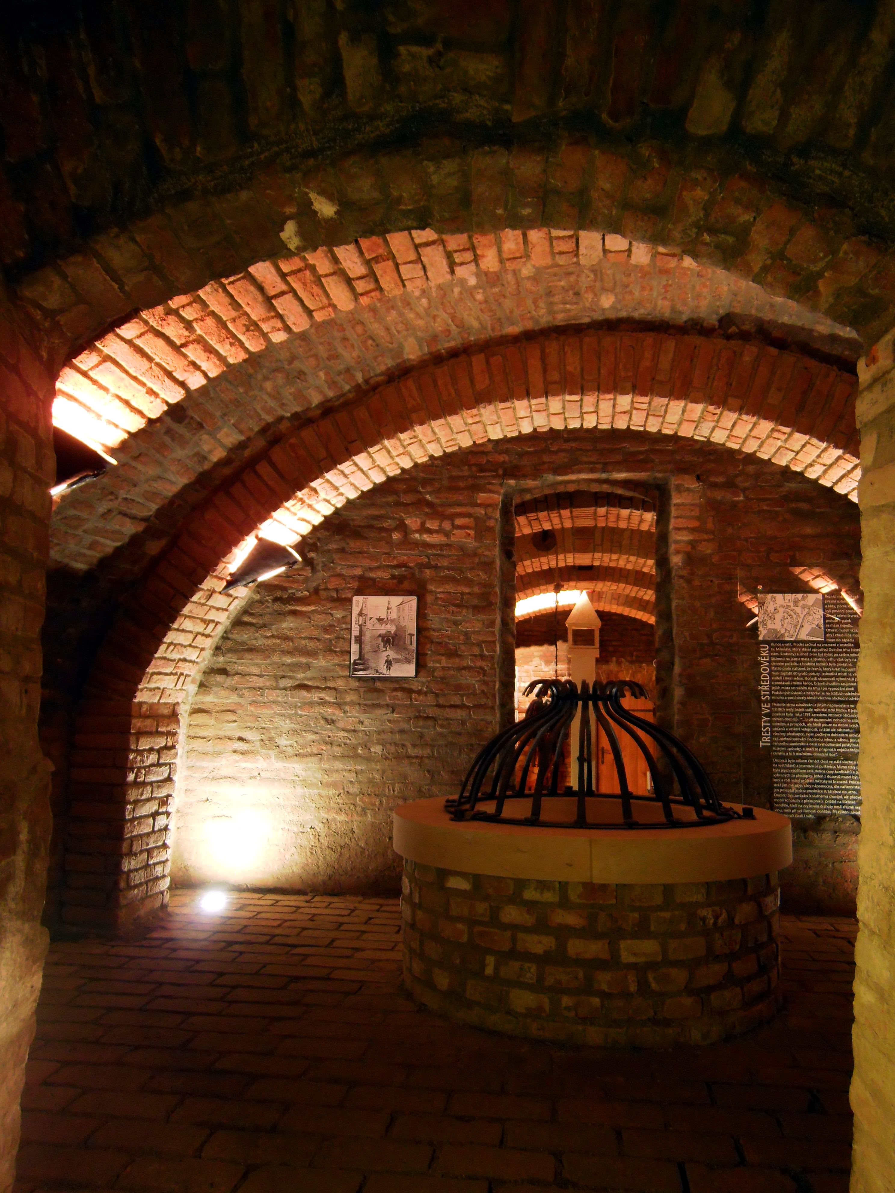 Well